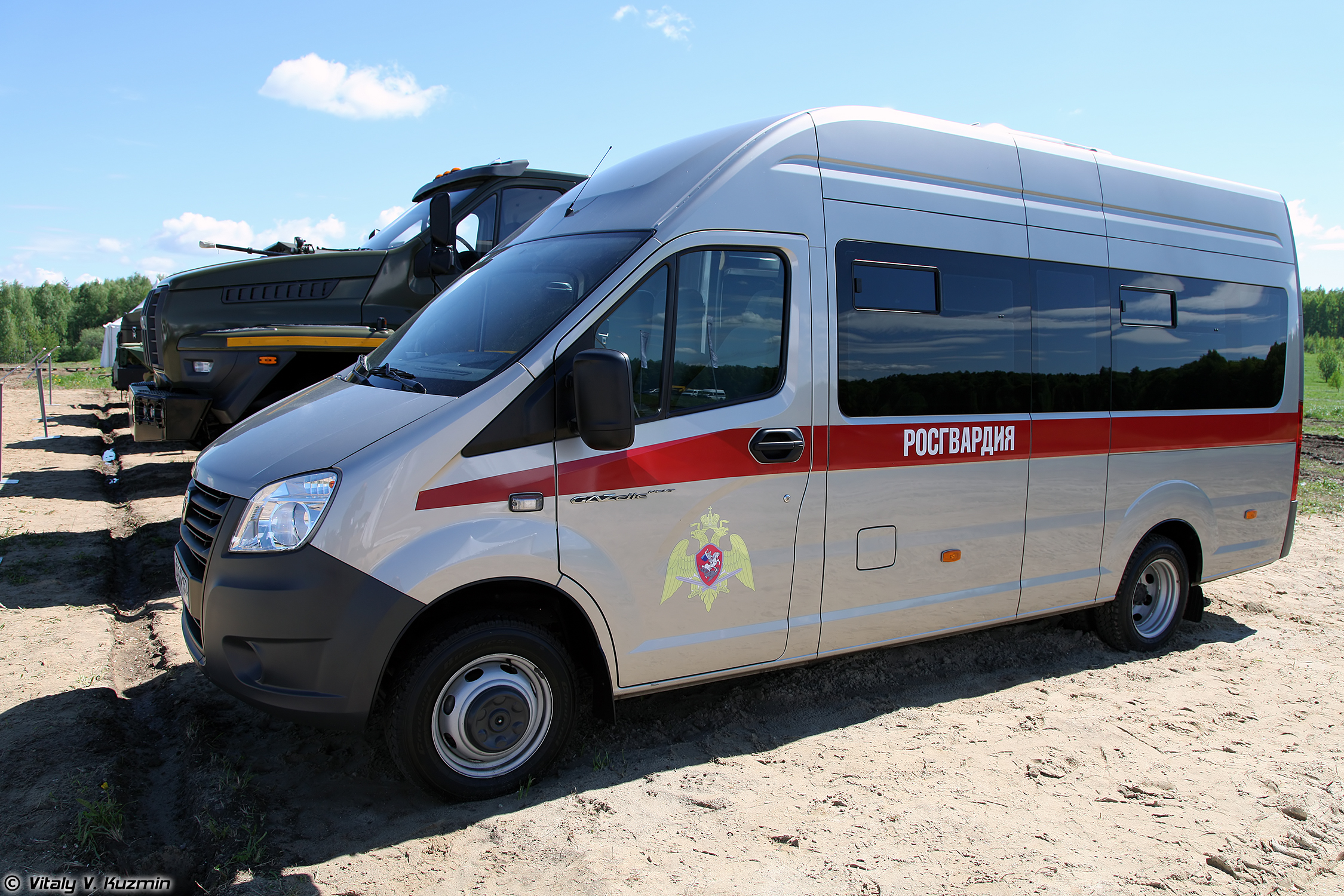 The Day of Advanced Technologies of Law Enforcement 2017